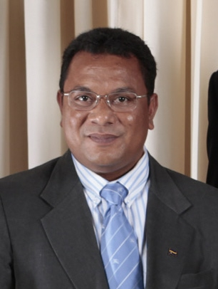 President Marcus Stephen of Nauru at the Metropolitan Museum in New York City